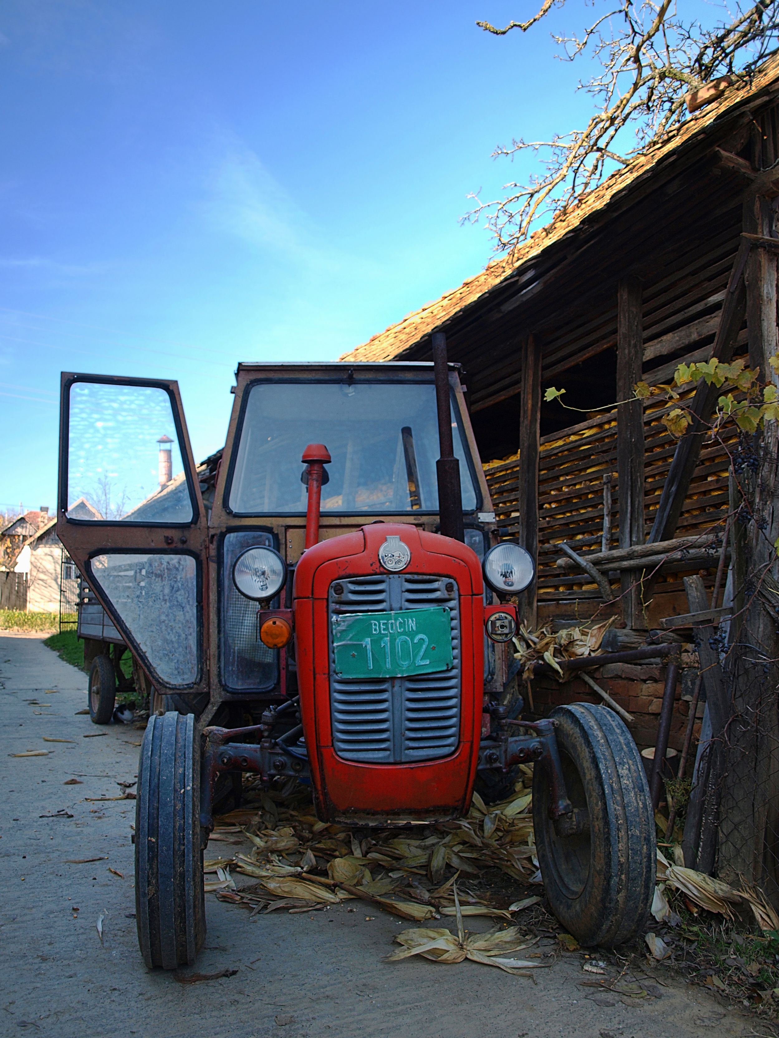 IMT tractor unloading corn in autumn harvest time. Village of Lug, Srem, Serbia.